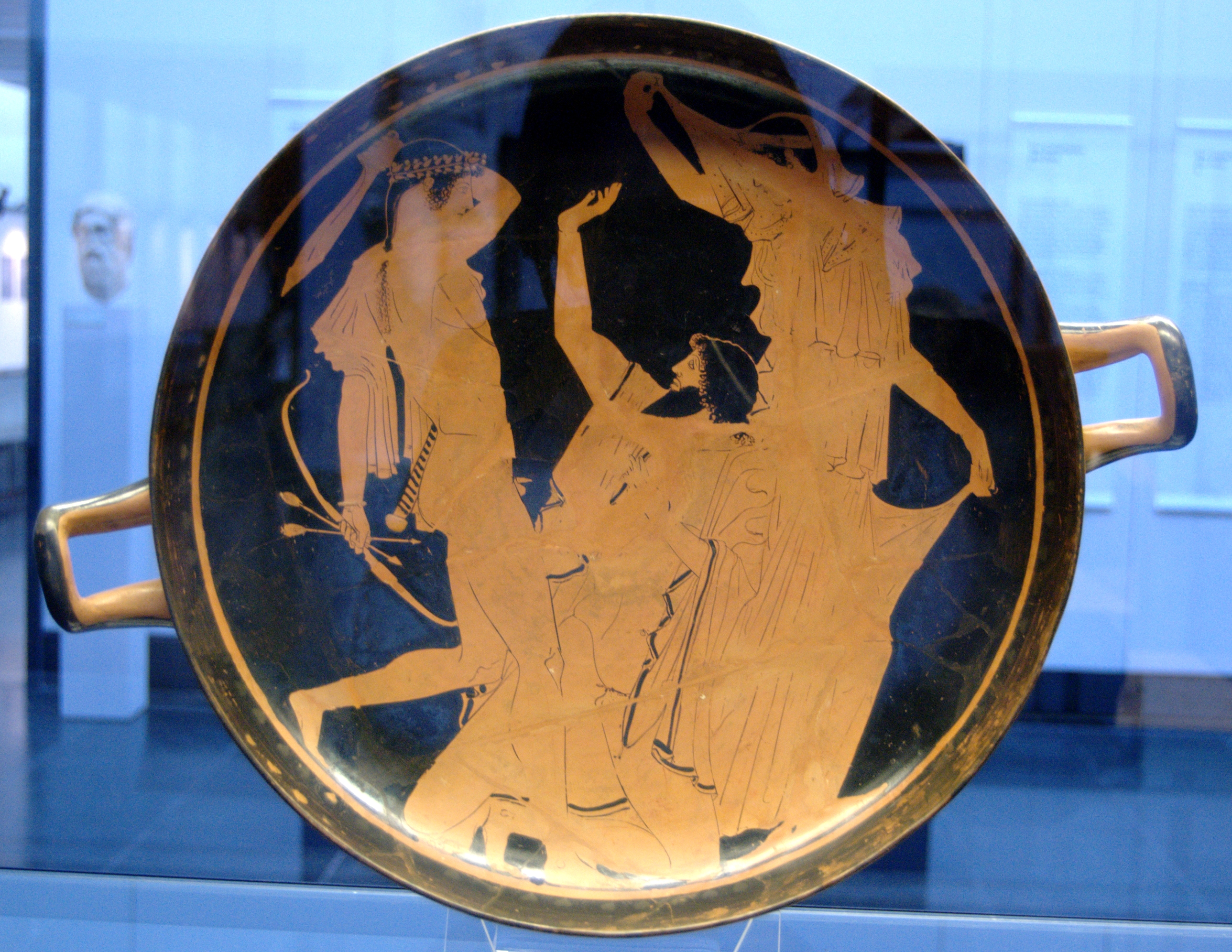 Apollo, Tityos and a goddess (probably Gaia defending her son, or Leto). Attic red-figure kylix, 460–450 BC.